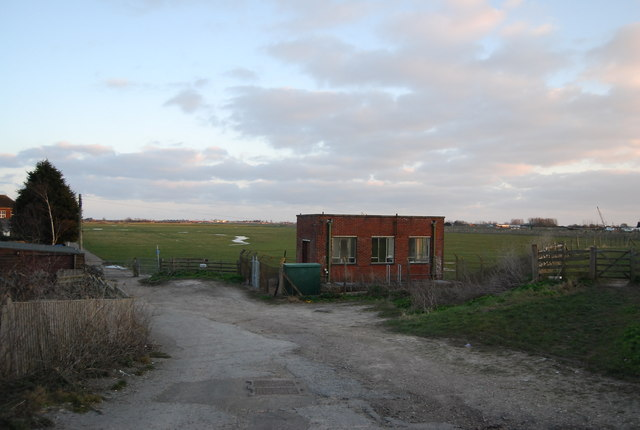 Pumping Station by the River Rother, New Rd